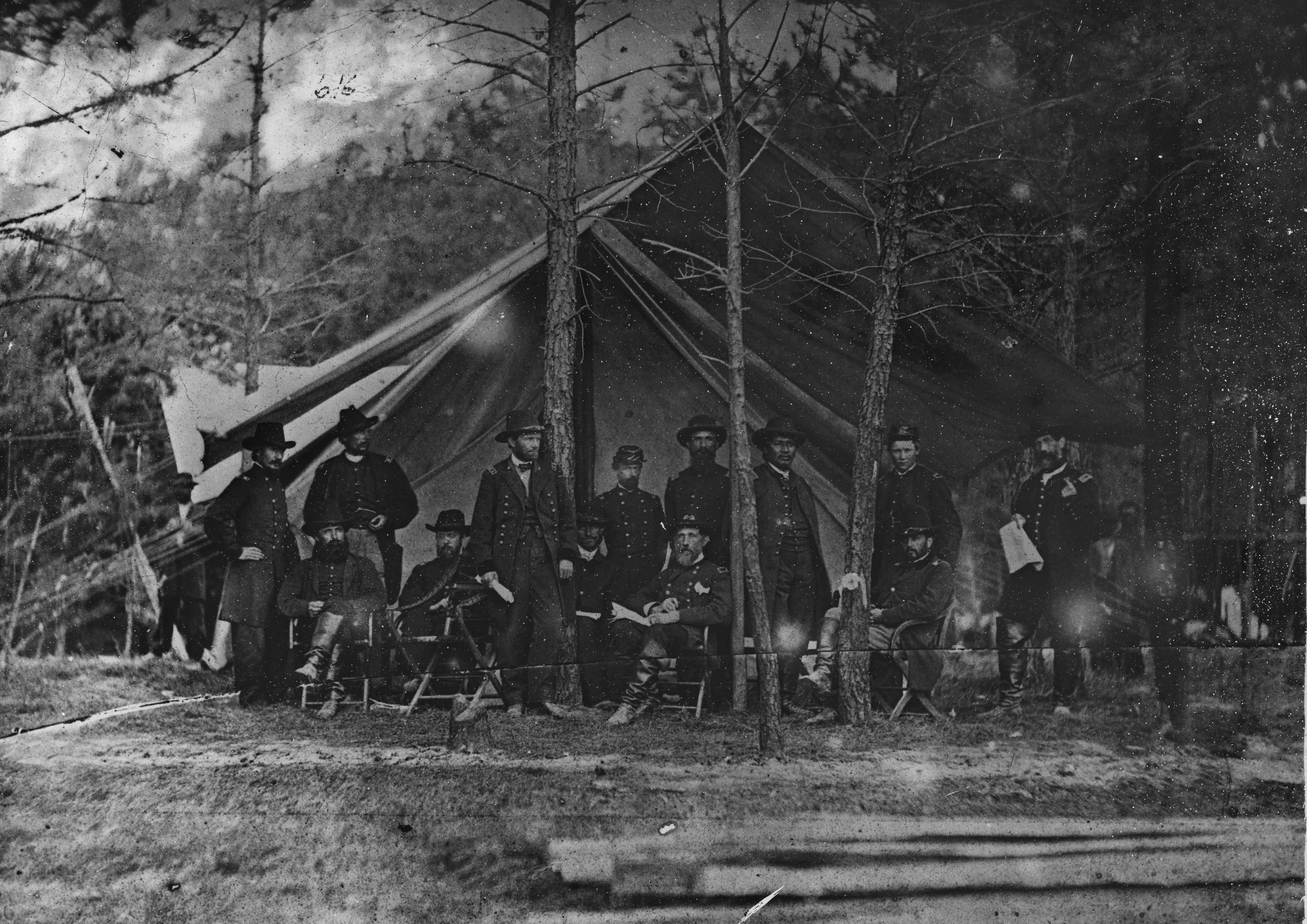 Photograph of Ulysses S. Grant and his staff, at Headquarters Cold Harbor, Va., June 12, 1864Image cropped from original